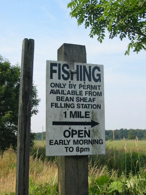 Fishing Permits available. Sign is adjacent to road at bridge.